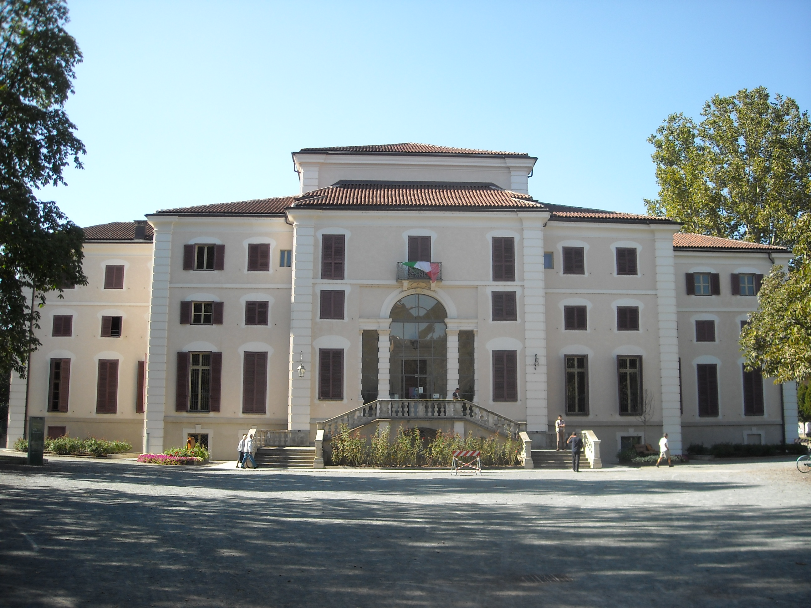 Villa Amoretti in Turin, Italy